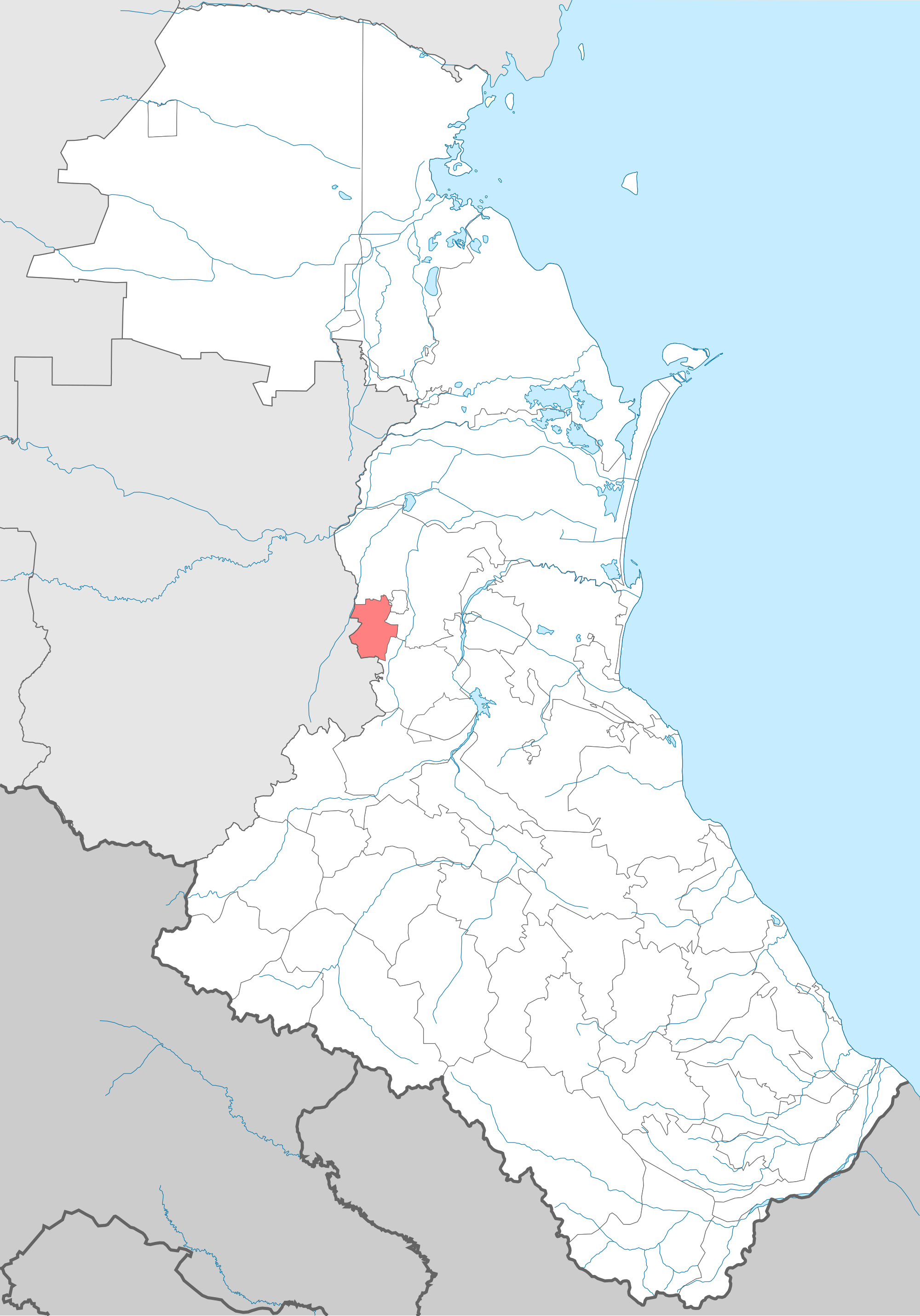 Position Novolaksliy district of Dagestan Russia